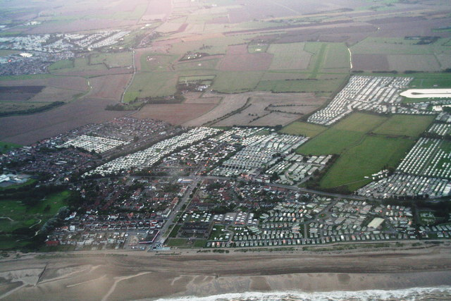 Winthorpe: aerial 2013